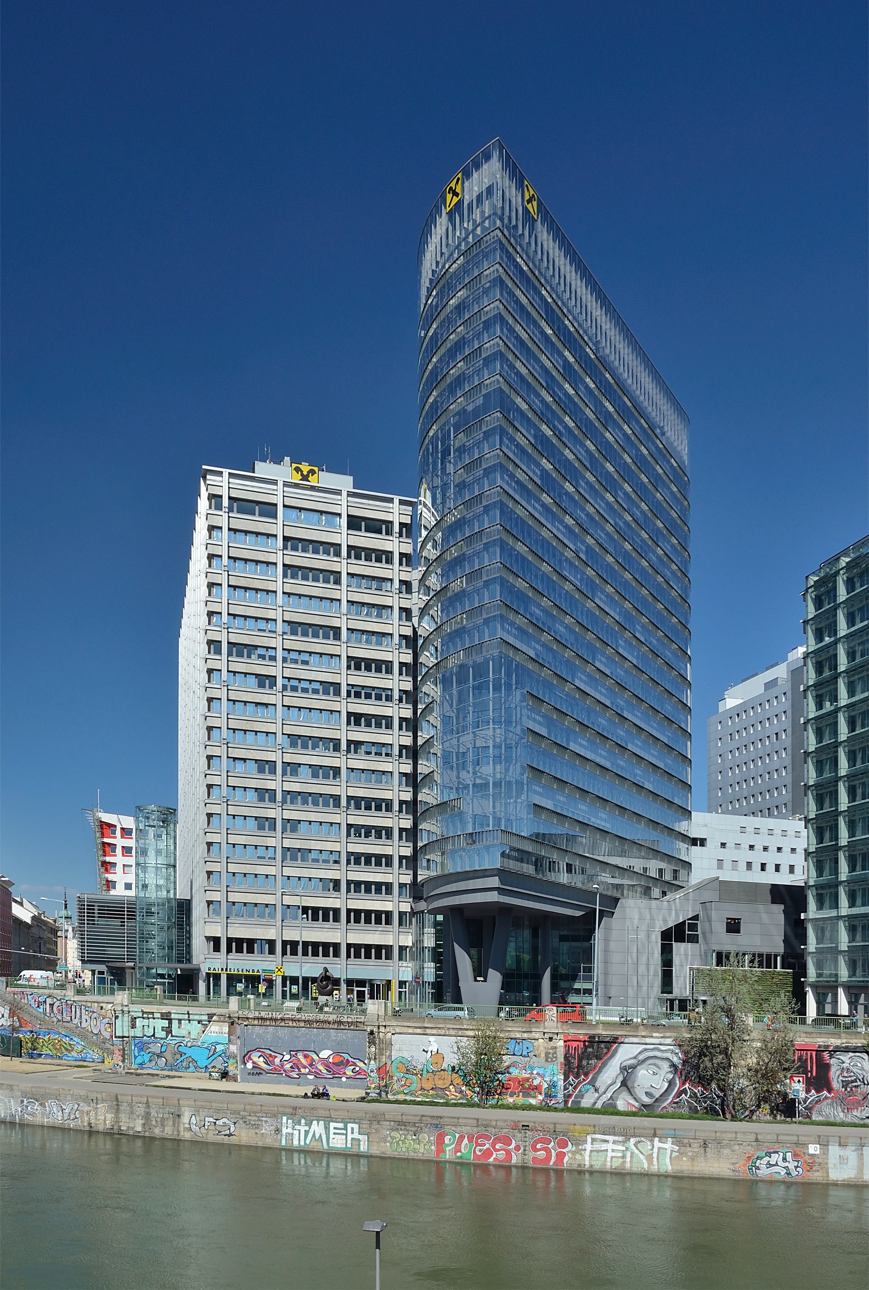 Raiffeisen Tower, Obere Donaustraße, Vienna